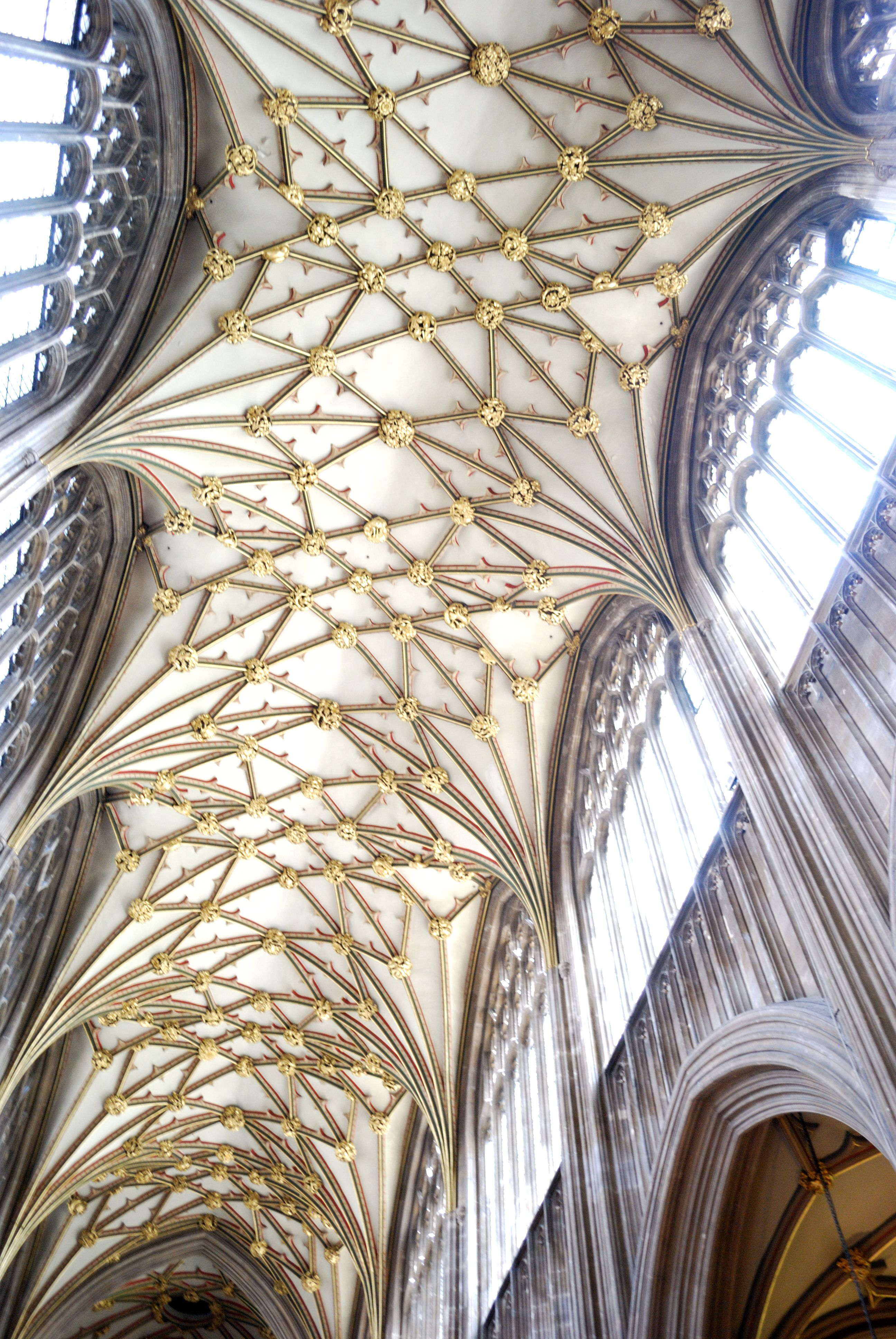 Nave vault in the parish church of St Mary Redcliffe, Bristol, England